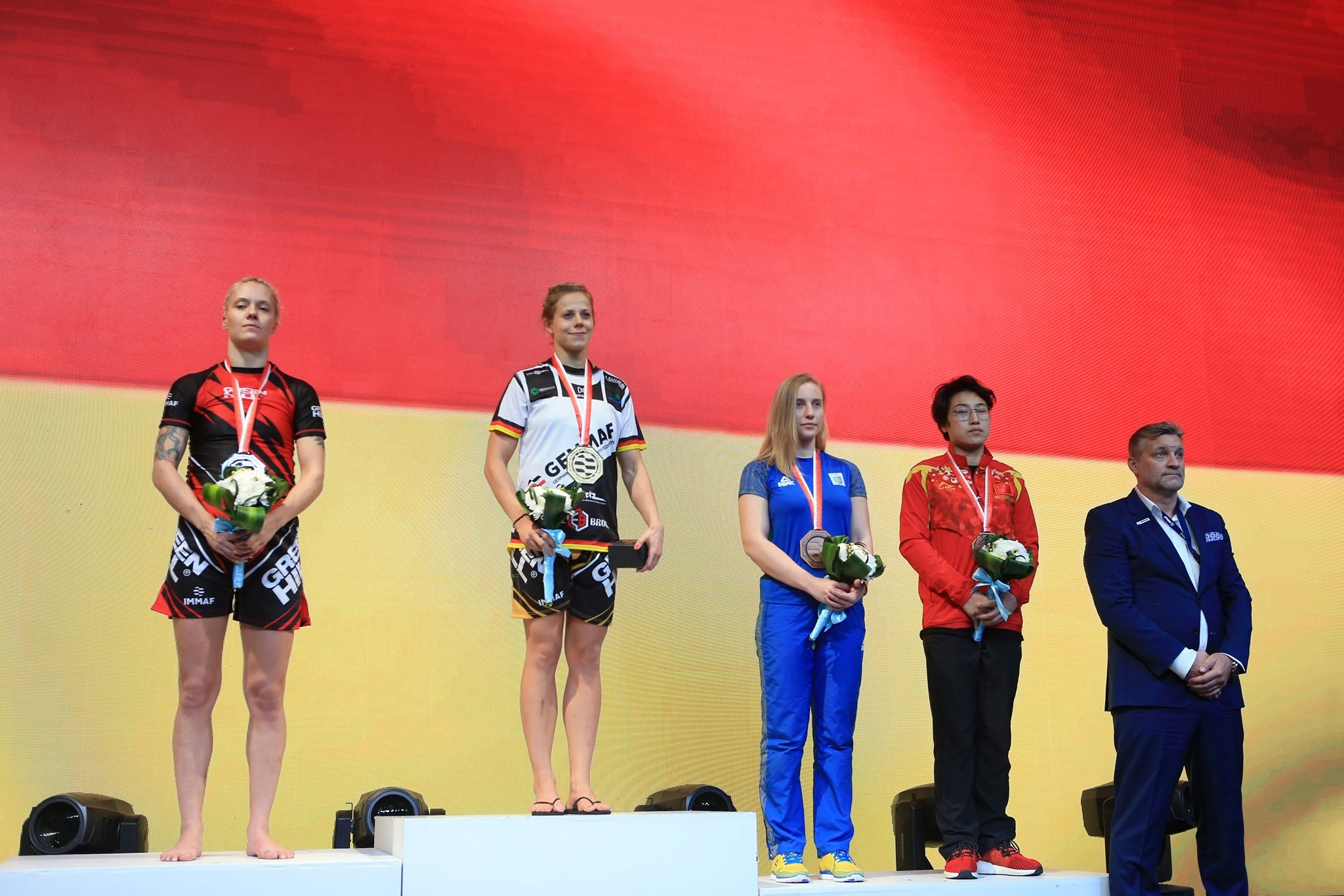 Julia_Dorny_MMA_Worldchampion